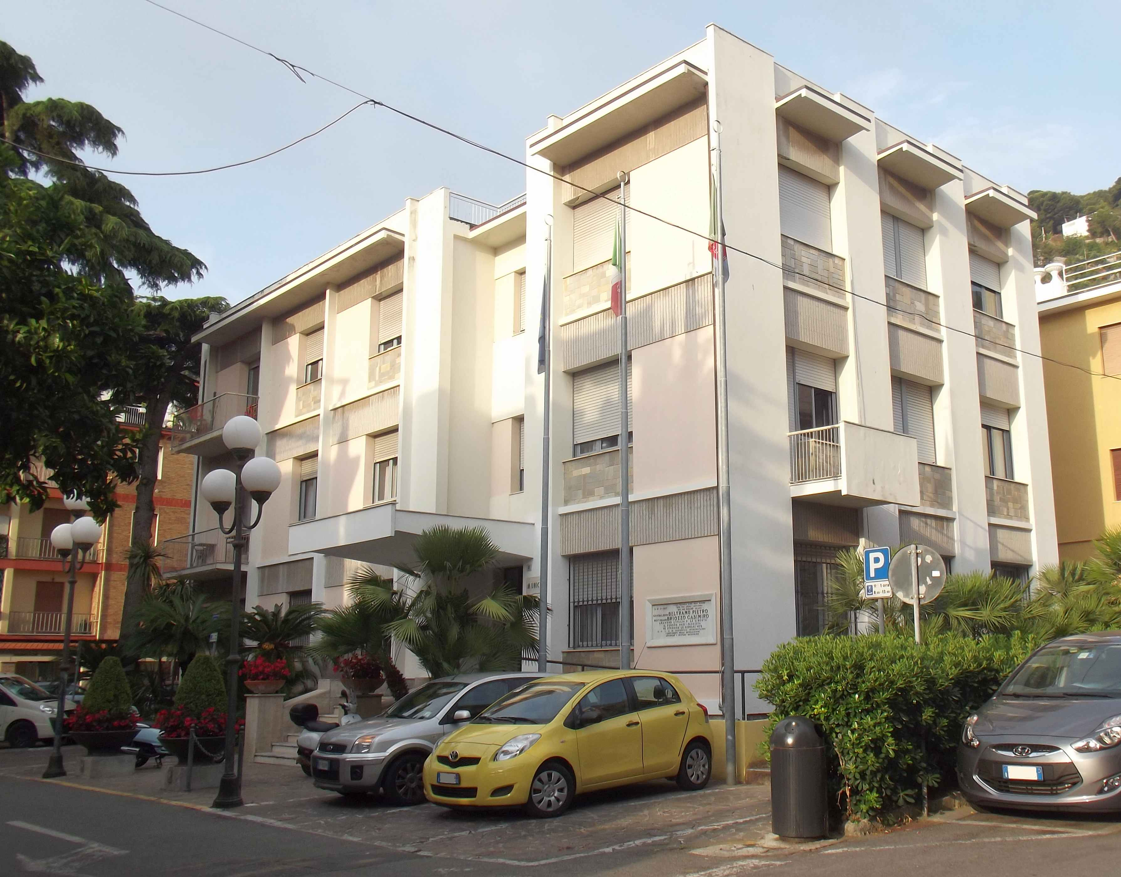 Laigueglia (SV, Italy): town hall